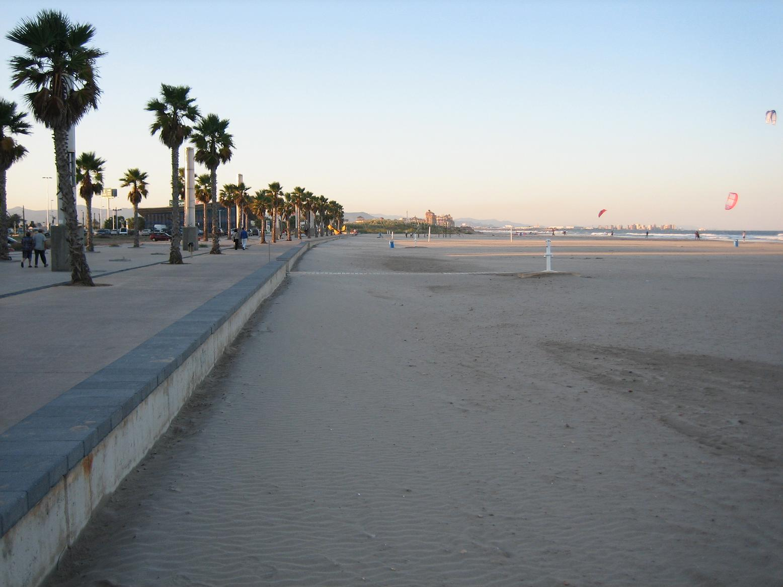 Author: Echiner Source: Own